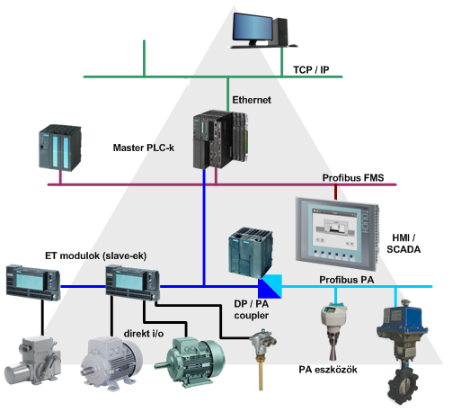 The types of communicationssystem "Profibus"